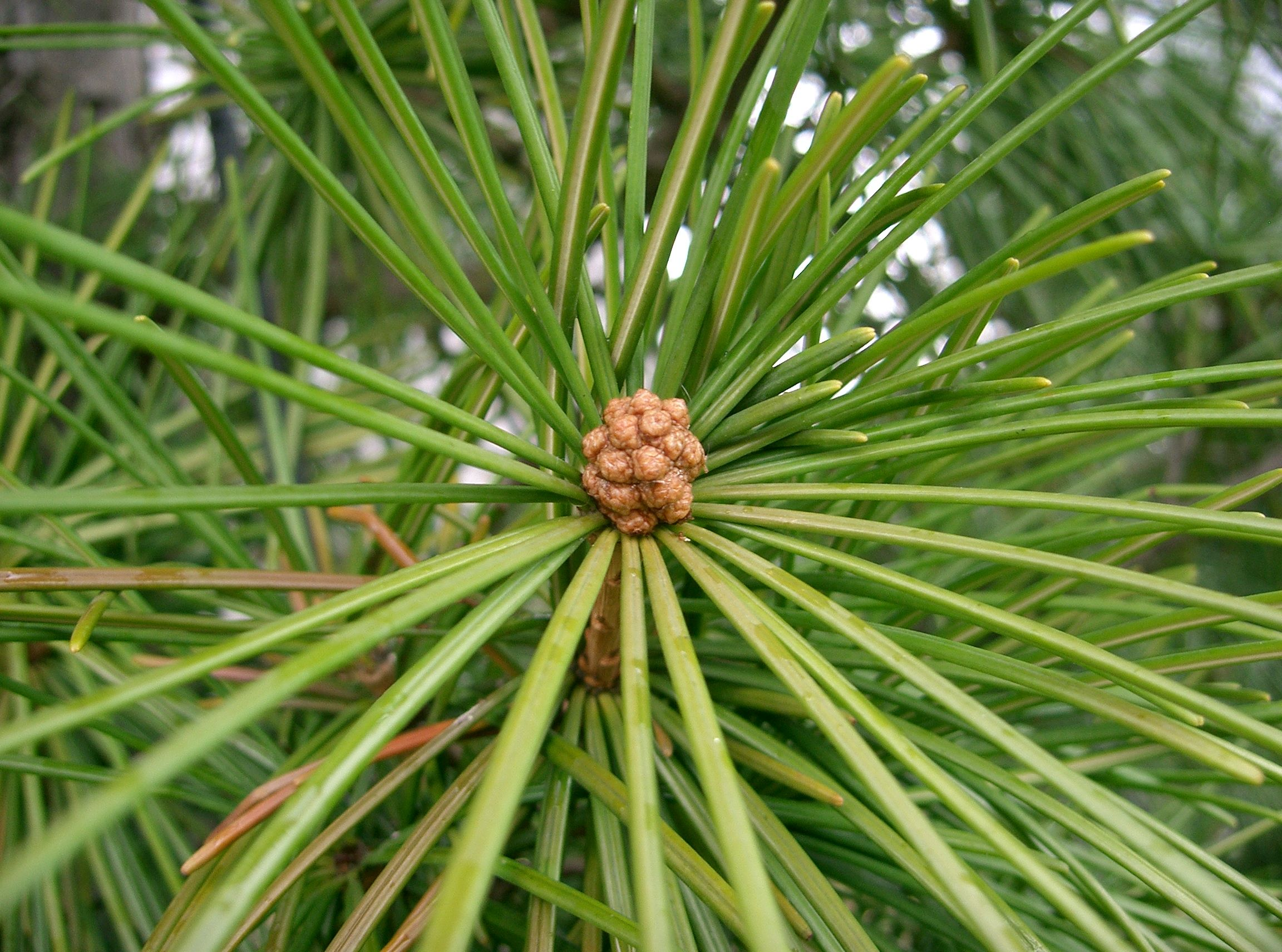 Koyamaki, at Osaka-fu, Japan